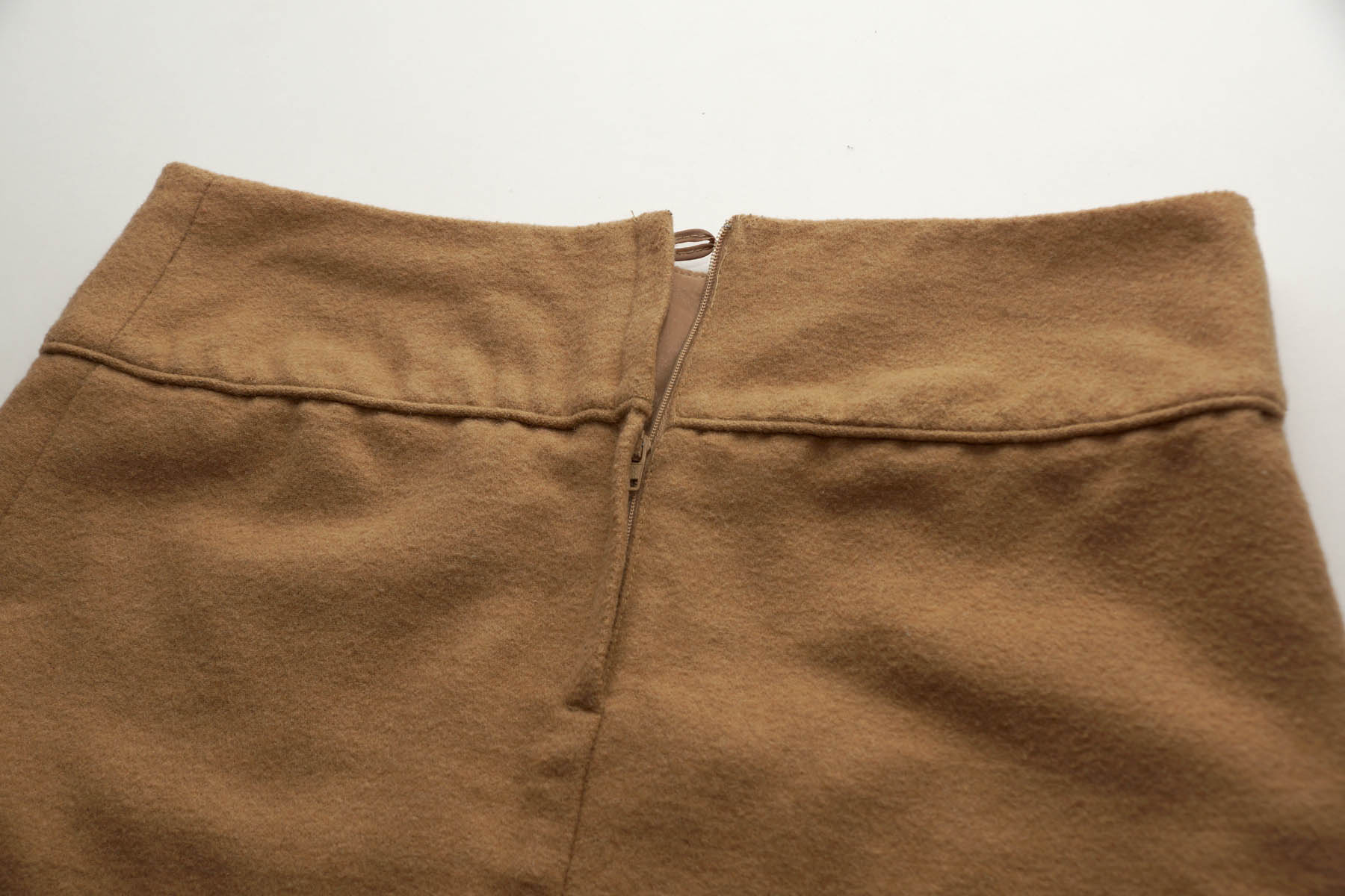 The upper portion of the back of a skirt, showing a zipper back closure.